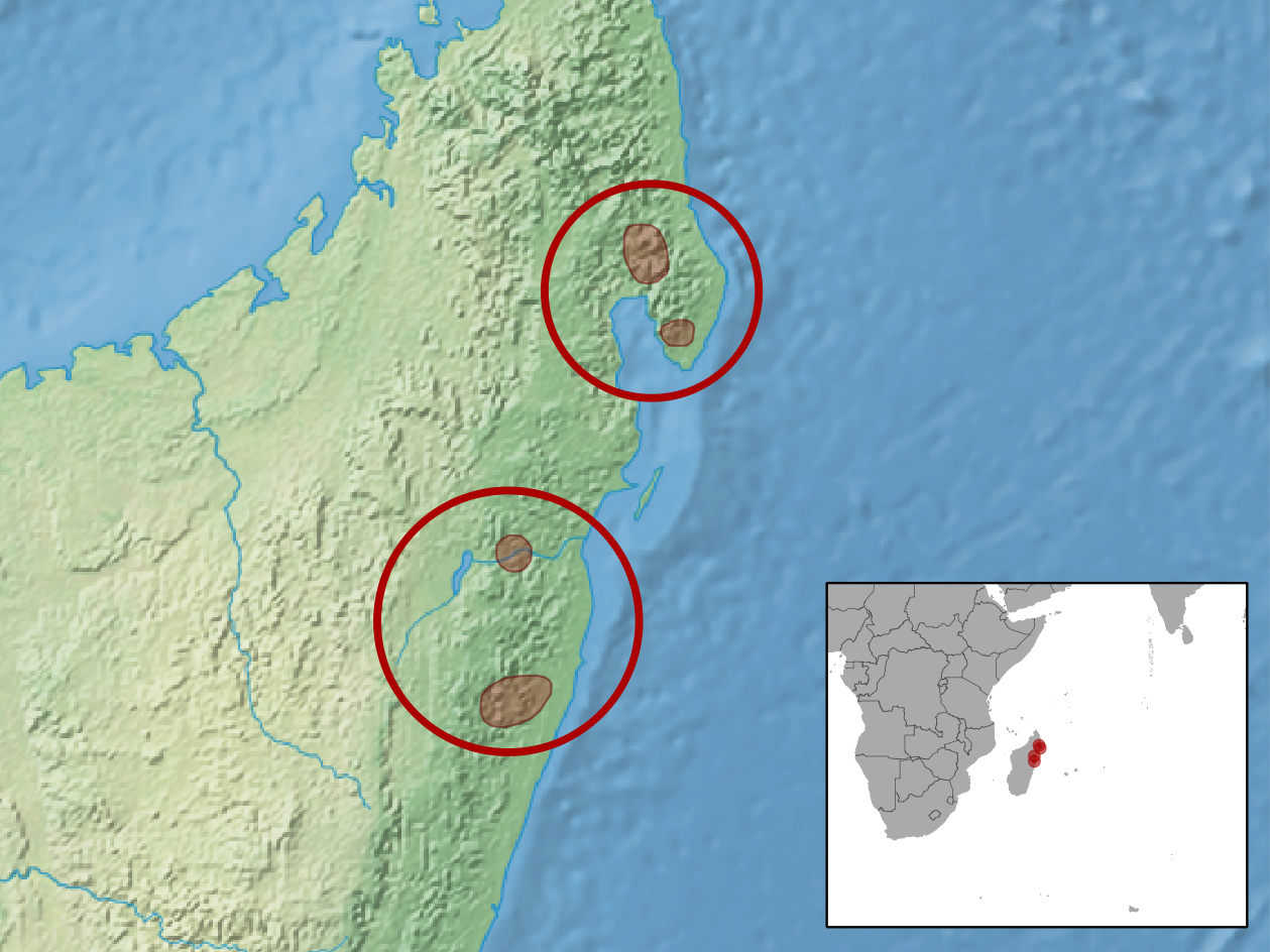 geographic distribution of Amphiglossus crenni